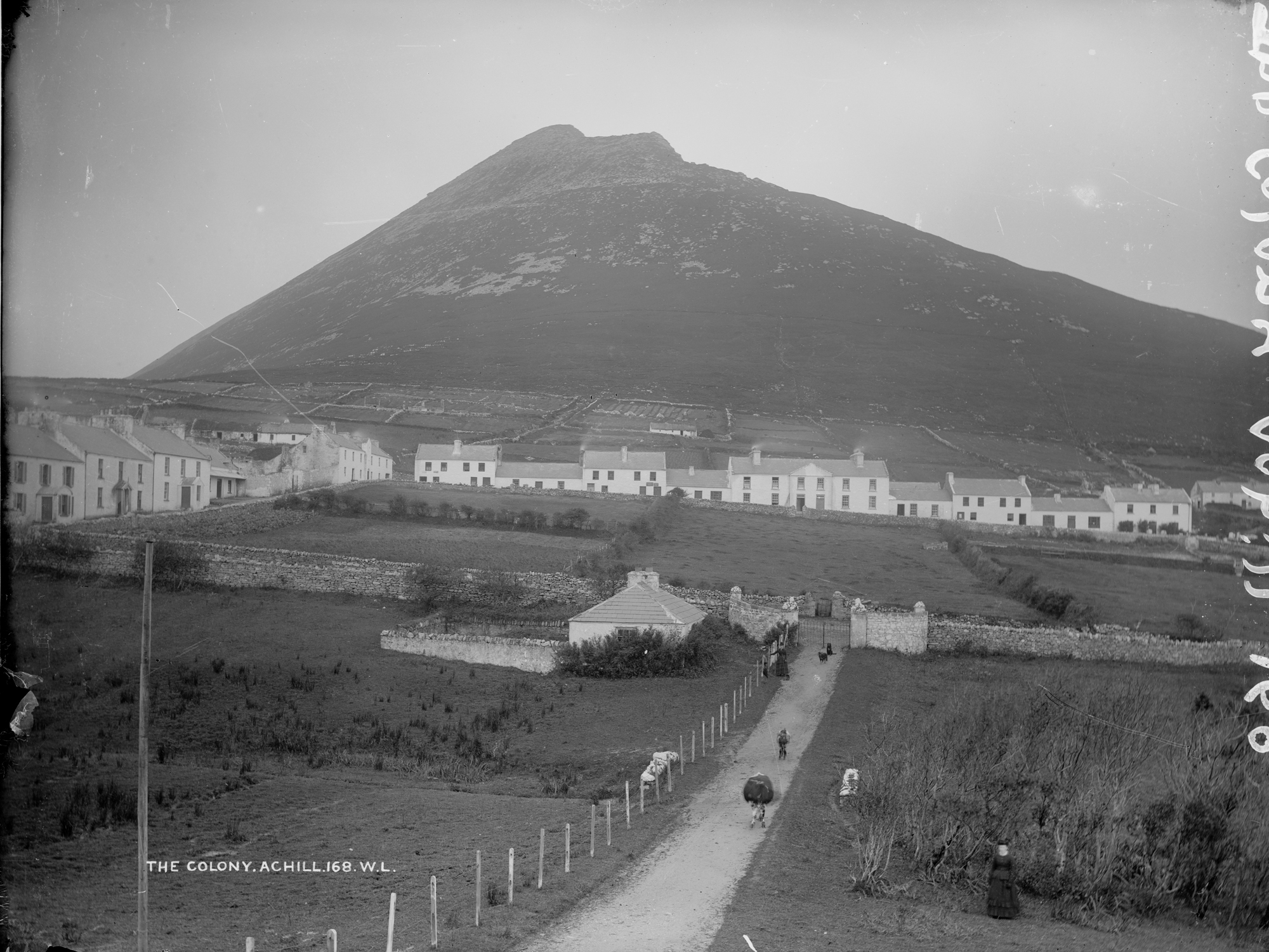 Sounding a little ominous (perhaps somewhere Patrick McGoohan might have spent some time), today we visit "The Colony" on Achilll island. Depending on when French captured this image, it's likely that Nangle's mission was all but closed by this time.... Photographer: French, Robert (1841-1917) Contributors: Lawrence, William (1840-1932) Collection: Lawrence Photograph Collection Date: 1880-1900 NLI Ref: L_ROY_00168 You can also view this image, and many thousands of others, on the NLI’s catalogue at